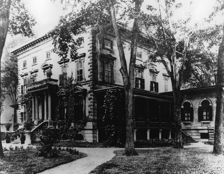 Photograph,Mrs. George Washington Stephens residence, Dorchester St., Montreal, QC, about 1890; About 1890, 19th century; Silver salts on paper - Photostat; 21 x 27 cm; Gift of Mr. Murray Ballantyne; MP-1977.88.4.34; McCord Museum.